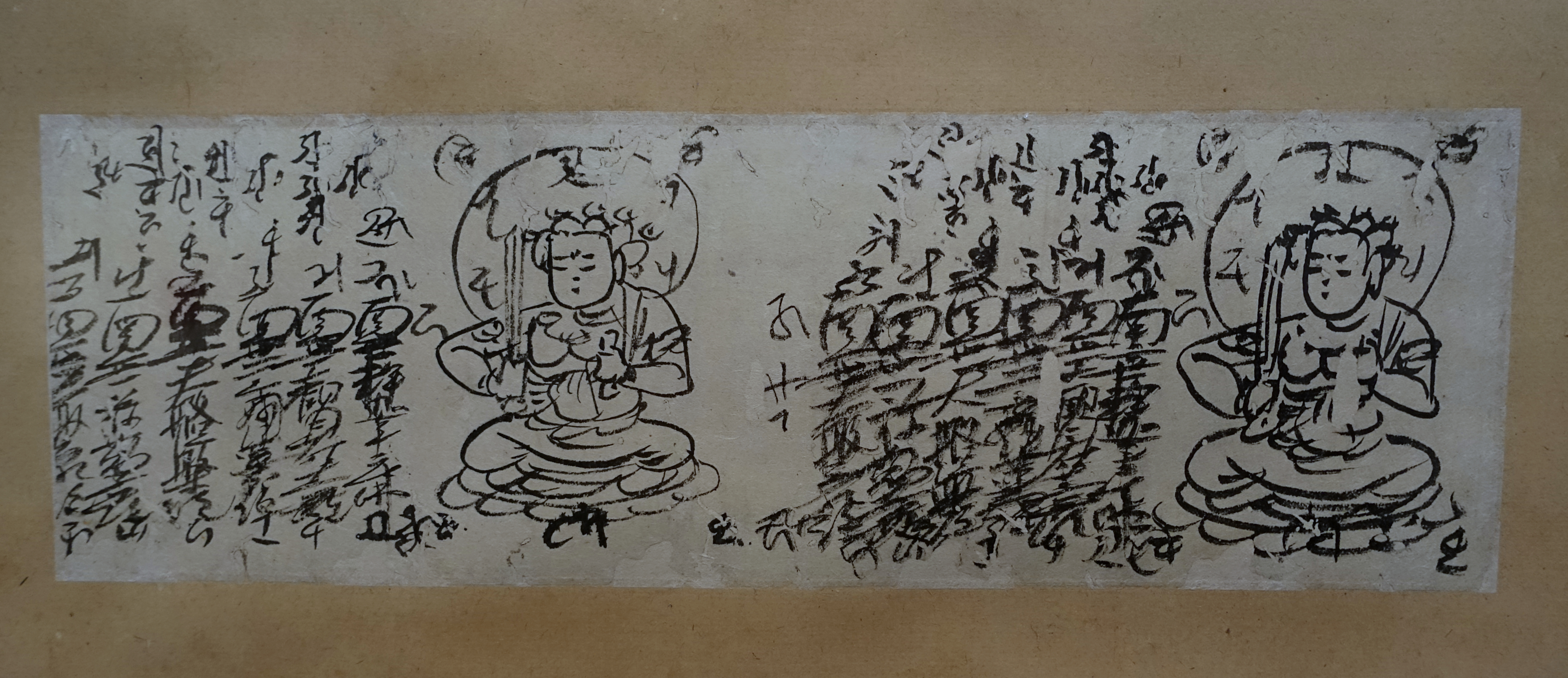 Exhibit in the Freer Gallery of Art, Washington, D.C., USA.